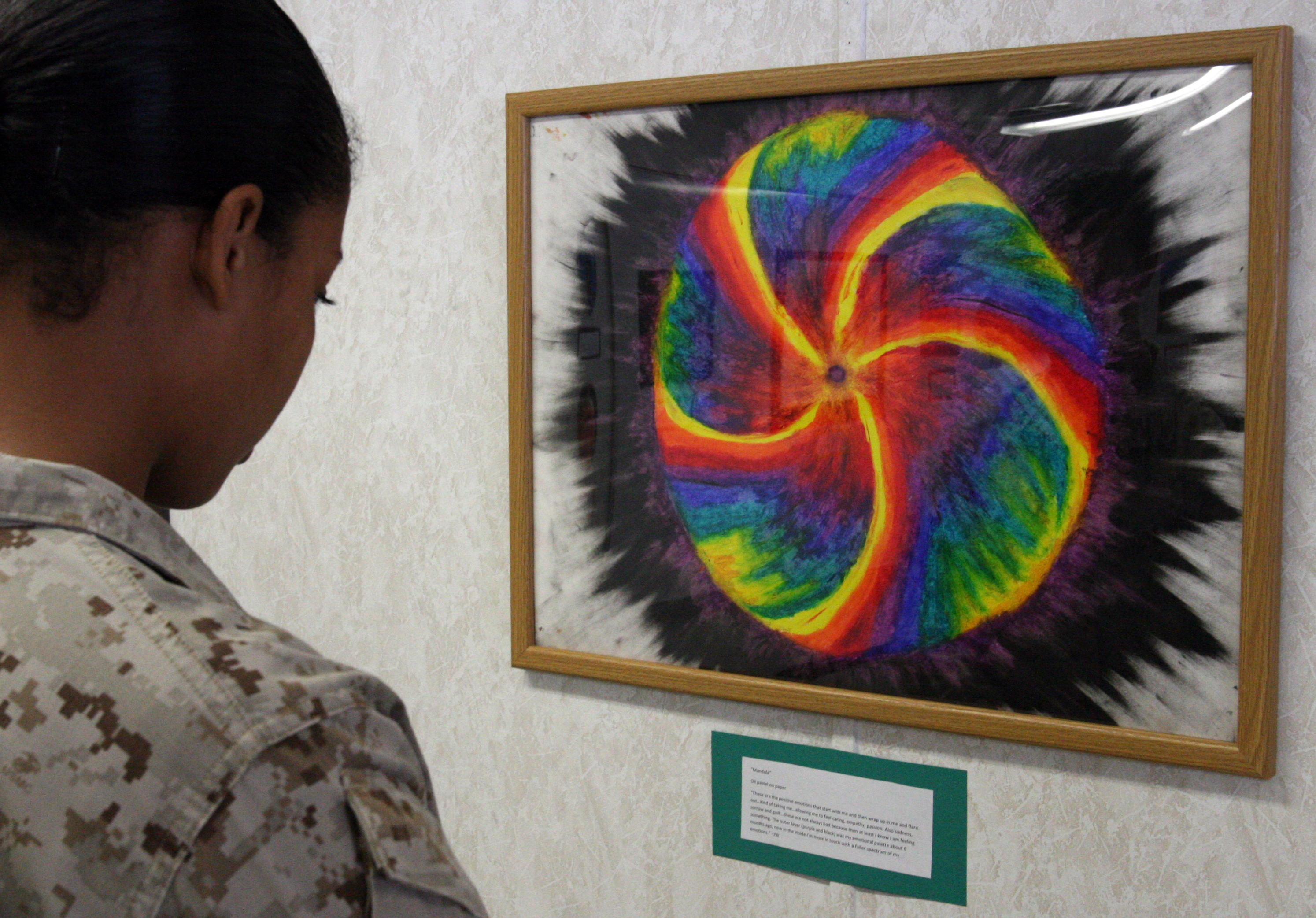 Milford, Mass., native, Pfc. Jailene Delacruz, an embarkation specialist with Marine Light Attack Helicopter Squadron 167, 2nd Marine Aircraft Wing, reads a quotation from a Marine describing the painting on the wall and what it means to them. Paintings by Marines and sailors who attend art therapy to relieve post-traumatic stress disorder symptoms were displayed at an art expo May 3.